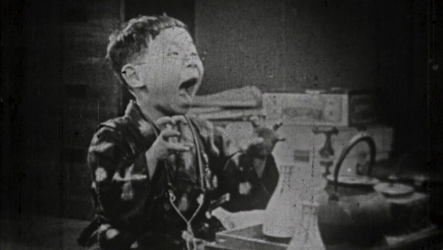 Tomio Aoki in Tokkan kozō (1929)